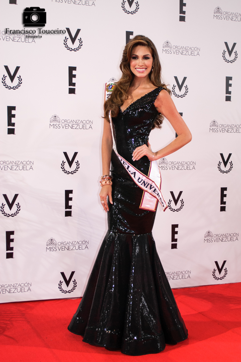 Miss Universe 2013 María Gabriela Isler at the E! Entertainment Television red carpet event of the Miss Venezuela 2013 beauty pageant.